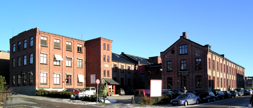 Norrøna shoe factory, Hamar, Norway. Oldest part built 1905.